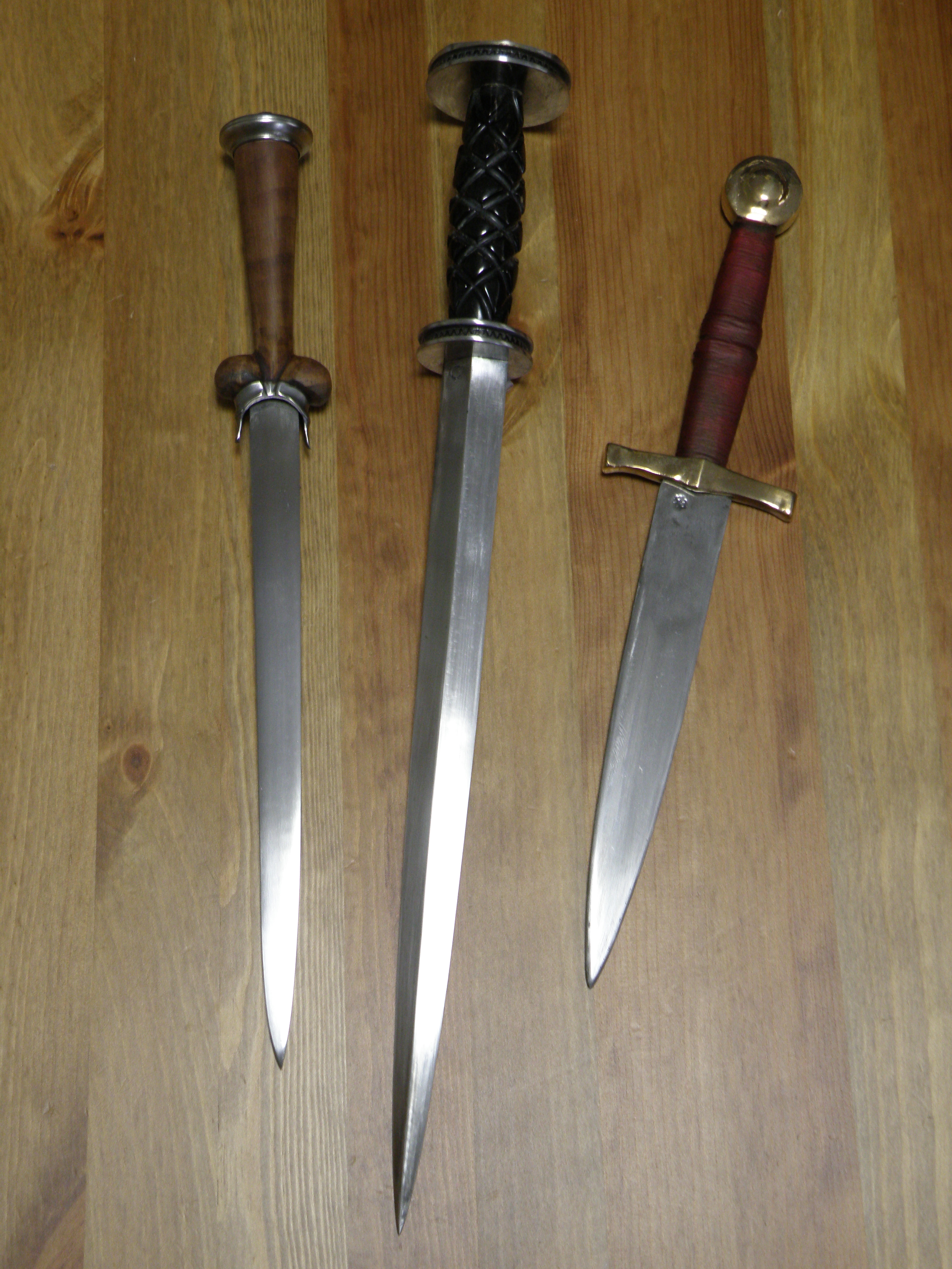 Modern reproductions of 3 of the 4 main types of Medieval dagger. From L to R: Ballock Dagger (a copy of Wallace Collection A732 by Arms & Armor, US), a typical later style of Rondel Dagger (by English Cutler, UK) and a sword-hilt dagger made by me, based on an original 14th century dagger in the Museum of London (formerly in the Guildhall Museum).